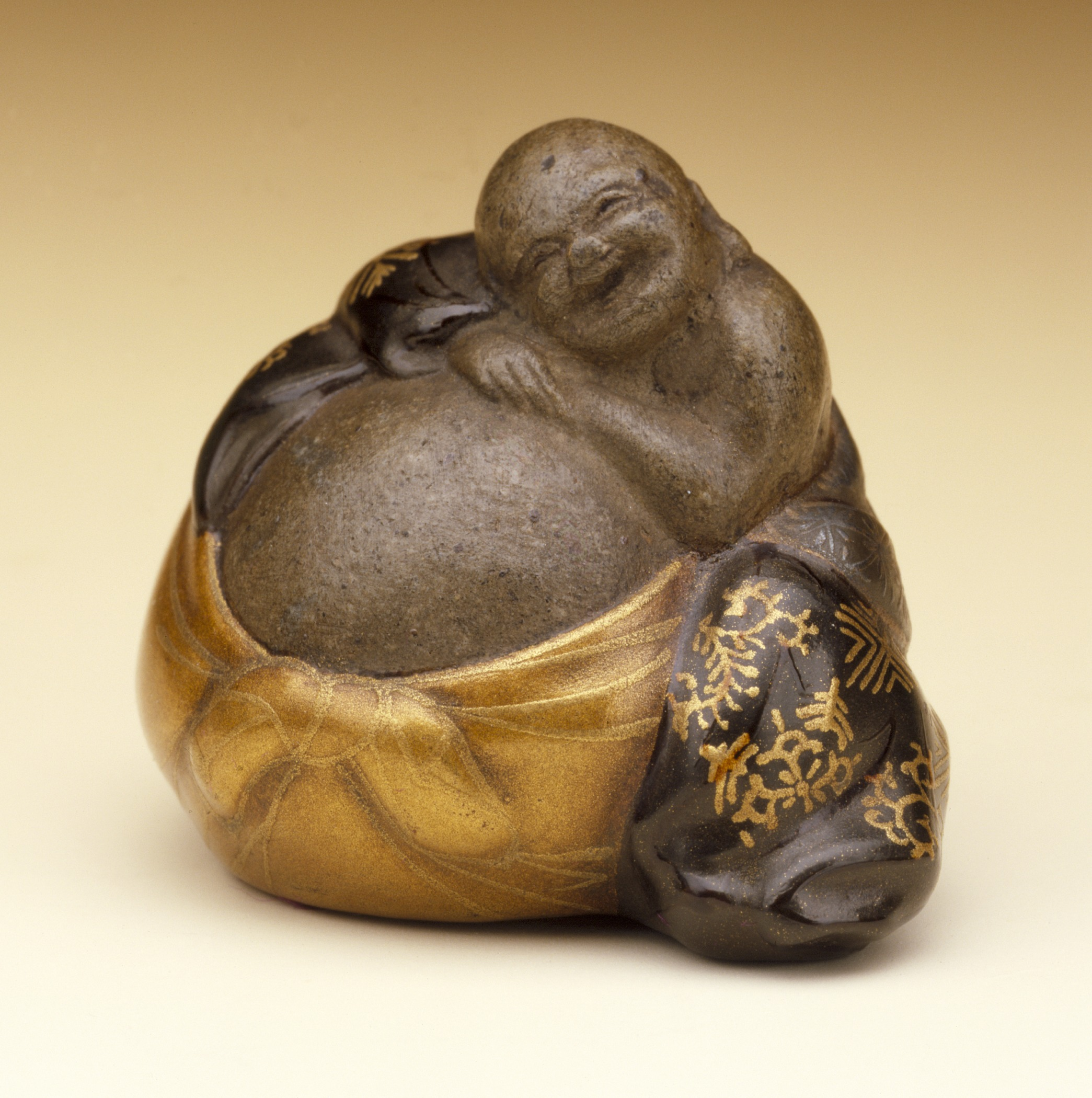 Japan, early to mid-19th century Costumes; Accessories Stoneware with gold and brown lacquer 1 1/2 x 1 1/8 x 1 1/8 in. (3.8 x 2.8 x 2.8 cm) Raymond and Frances Bushell Collection (M.87.263.70) Japanese Art